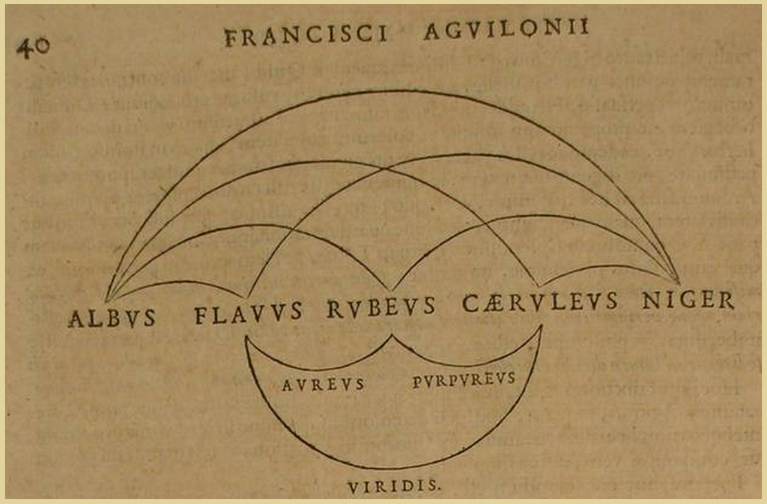 Colour system by Francois D'Aguilon from the Opticorum libri sex (1613).